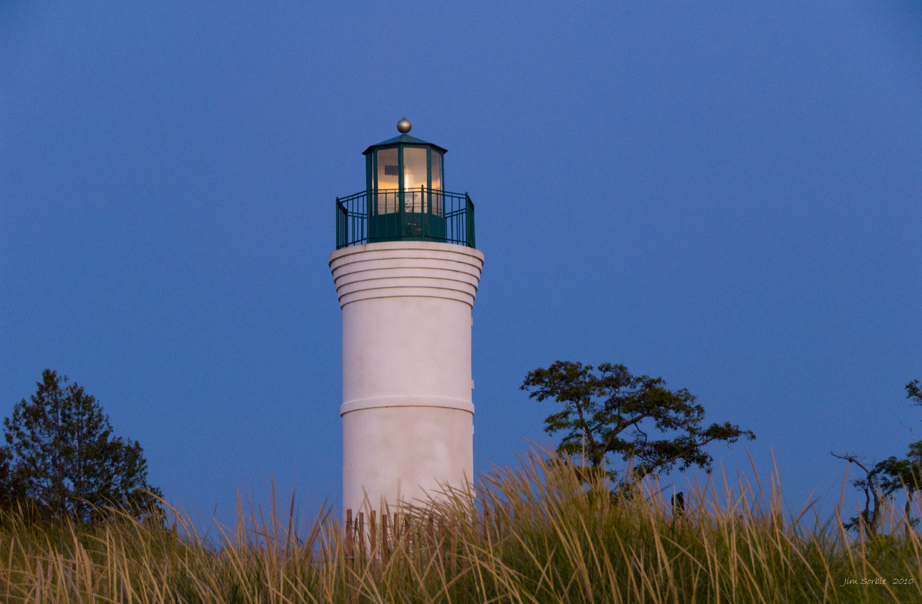 Robert H. Manning Memorial Lighthouse. An unofficial, privately-constructed light in Empire, Michigan